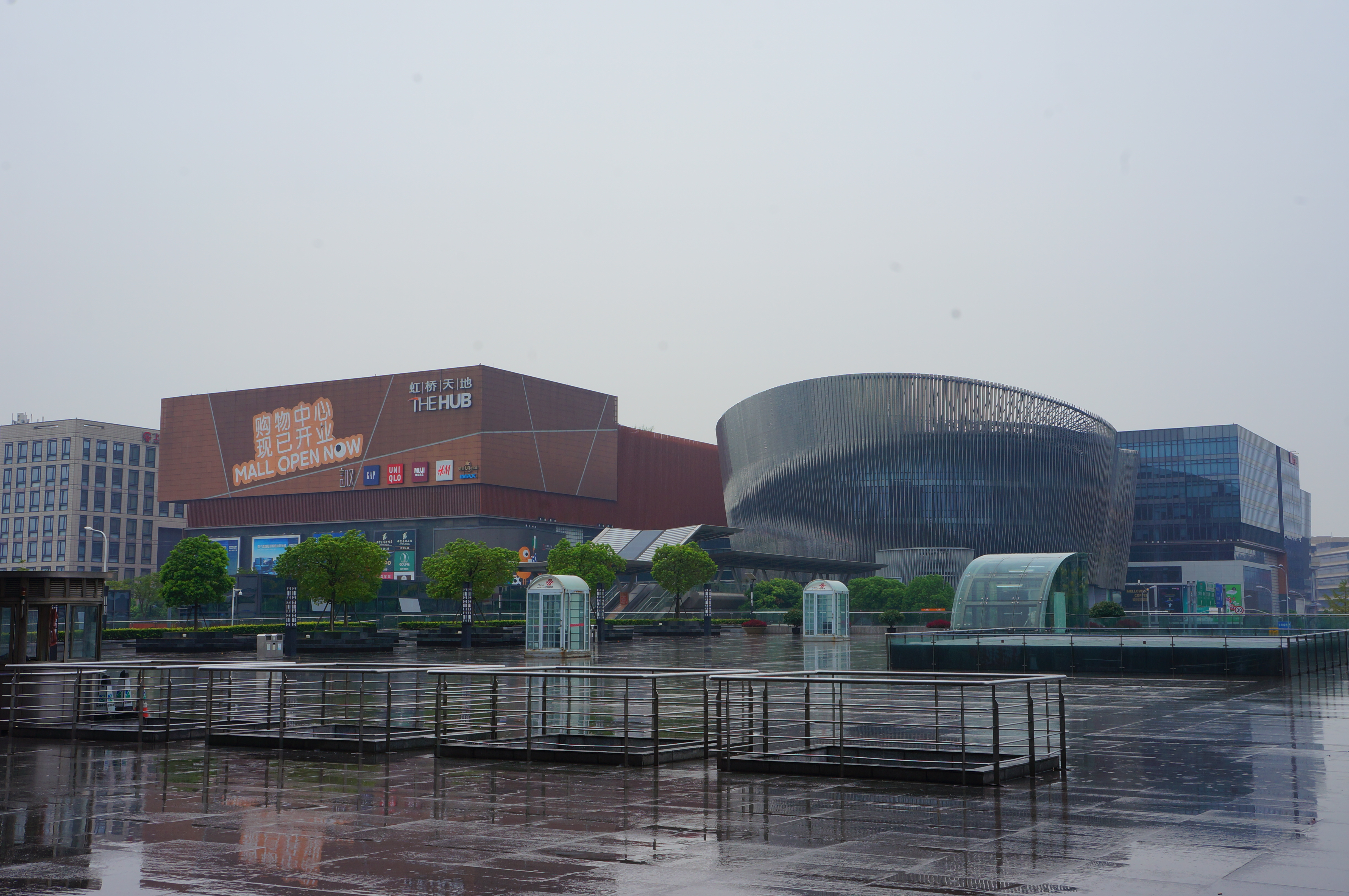 201609 The Hub Mall in Xinhong, taken from Western entrance of Shanghai Hongqiao Railway Station